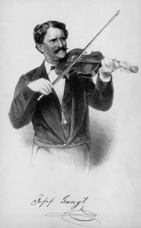 German composer and dirigent Josef Gung'l (1810-1889)